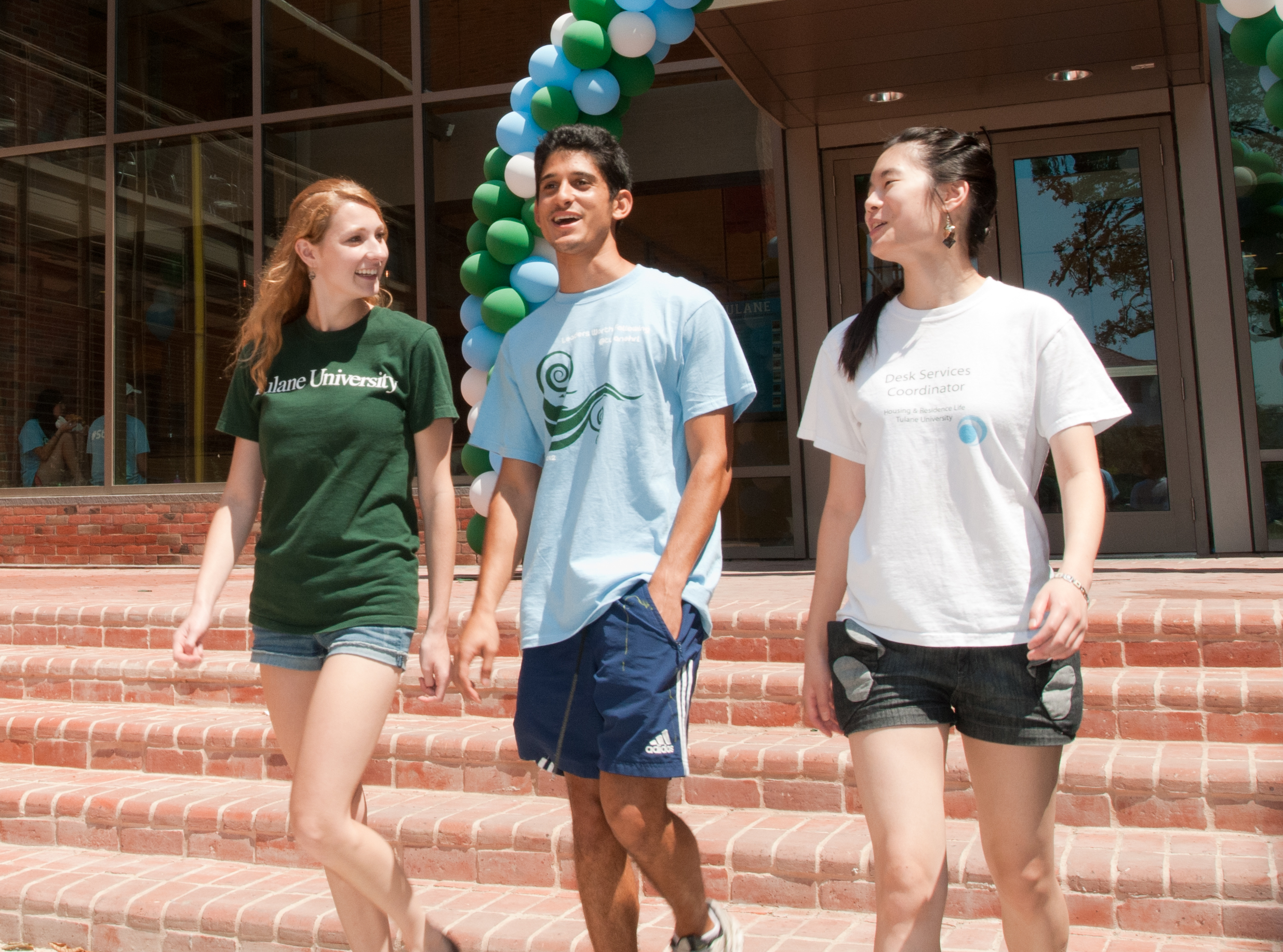 Move In Day 2011